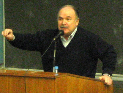 An image of Nikolai Gubenko, the last Minister of Culture of the USSR